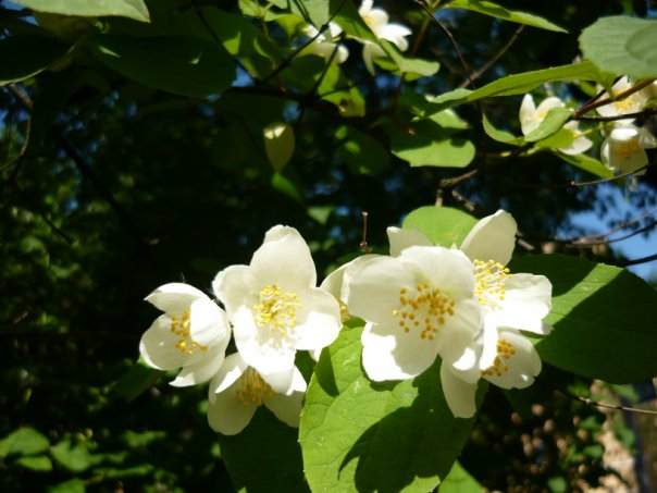 Philadelphus